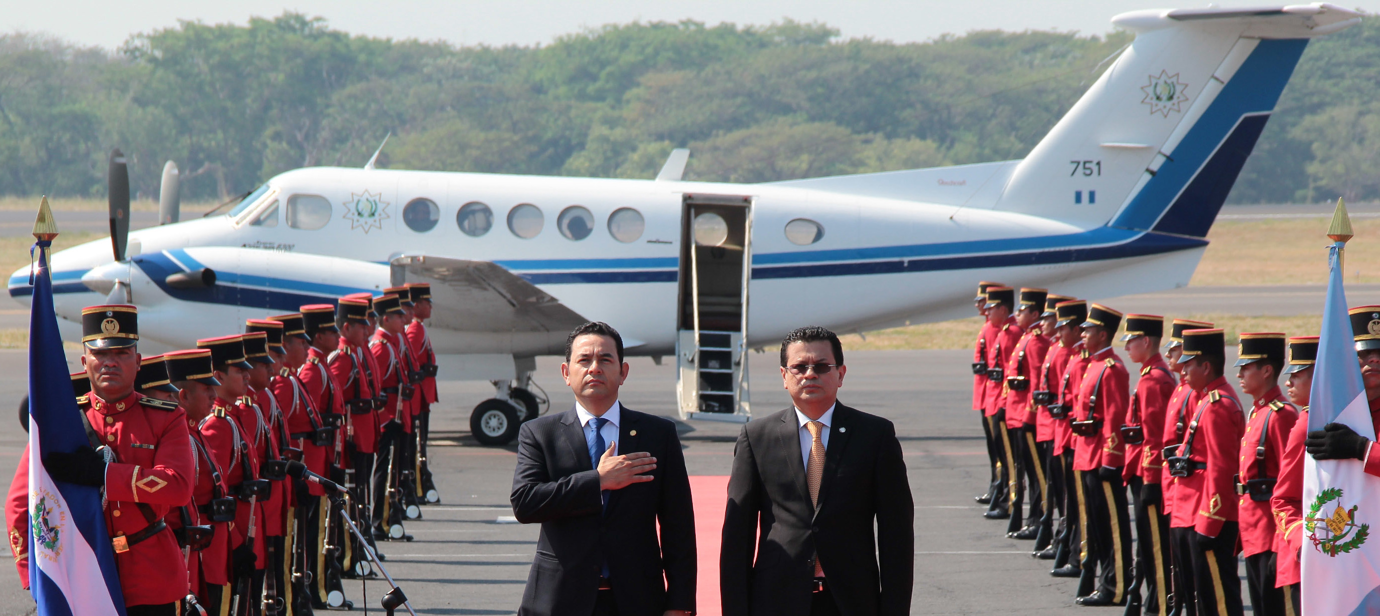 Jimmy Morales, Presidente de Guatemala es recibido por el Canciller Hugo Martínez.